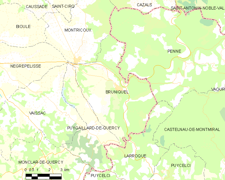 Map of French municipality Bruniquel